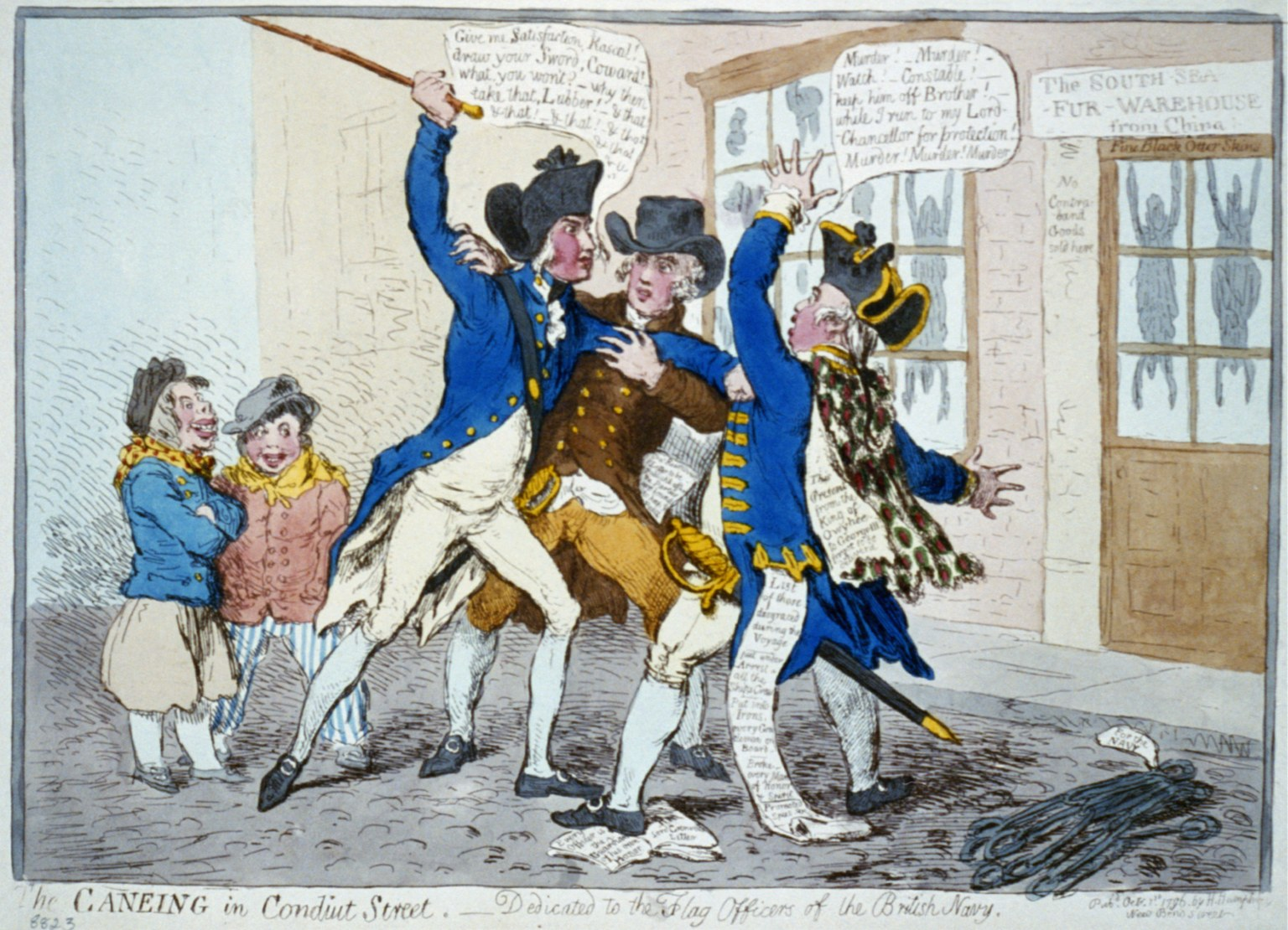 The caneing in Conduit Street. Dedicated to the flag officers of the British Navy SUMMARY: Caricature showing a stout naval officer attacked by Lord Camelford, who says, "Give me satisfction, rascal! Draw your sword..." Captain Vancouver replies, "Murder! Murder! ..." The print may reflect the growing discontent due to harsh naval discipline. MEDIUM: 1 print : engraving, hand-coloured. NOTES: Hand-coloured engraving by James Gillray published by H. Humphrey. British Cartoon Collection (Library of Congress). This record contains unverified, old data from caption card.